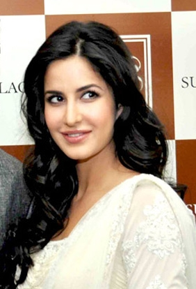 Katrina Kaif promoting Zindagi Na Milegi Dobara in Vadodara.